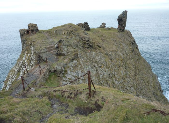 Fast castle, Scotland